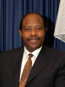 Paul Rusesabagina, June 21, 2006